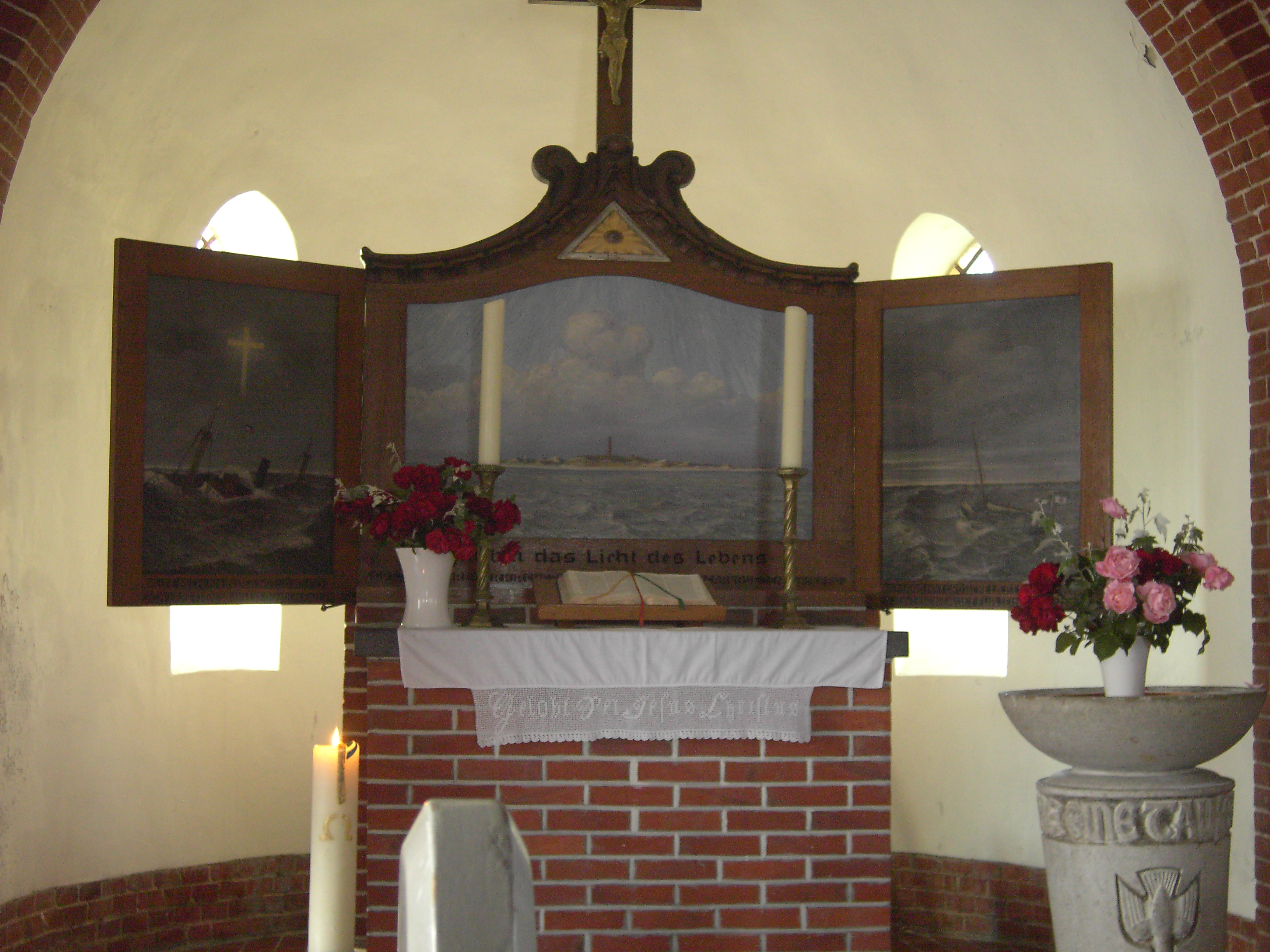 Inside of Wittdün-chappel, Amrum